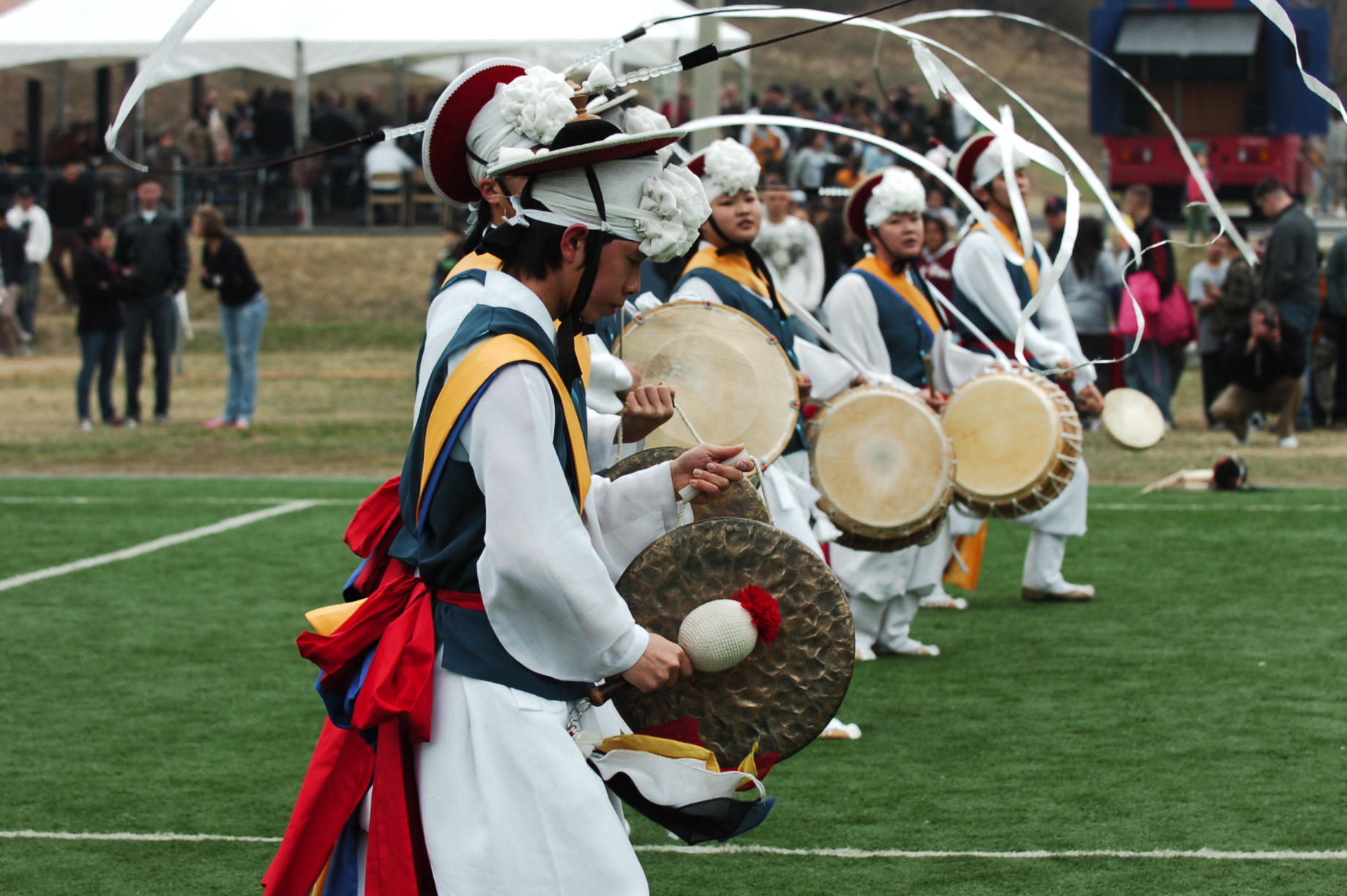 Nongakdae, the Traditional Korean Folk Band presented their rhythmic performances and acrobatics at the 1st Heavy Brigade Combat Team Family Day April 3 at Camp Casey's Soldier Field.